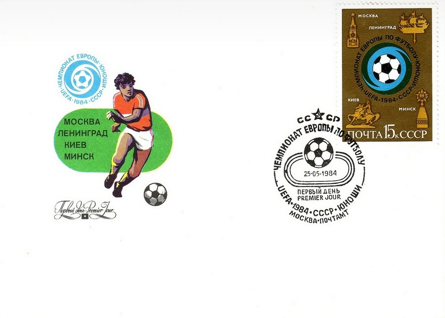 Soviet Union - FDC European U-18 Football Championship 1984 25/05/84. SG5444. First day cover. European U-18 Football Championship hosted in the Soviet cities of Moscow, Leningrad, Kiev and Minsk.